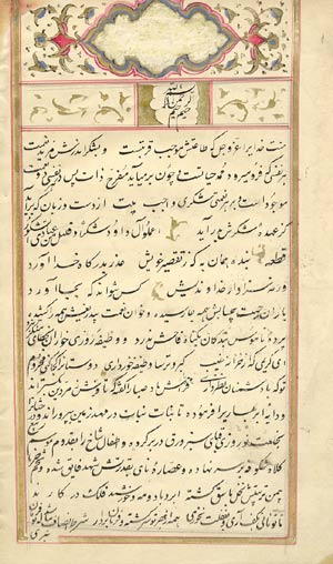 The introduction of the Gulistan of Sa'di. Nasta'liq style.